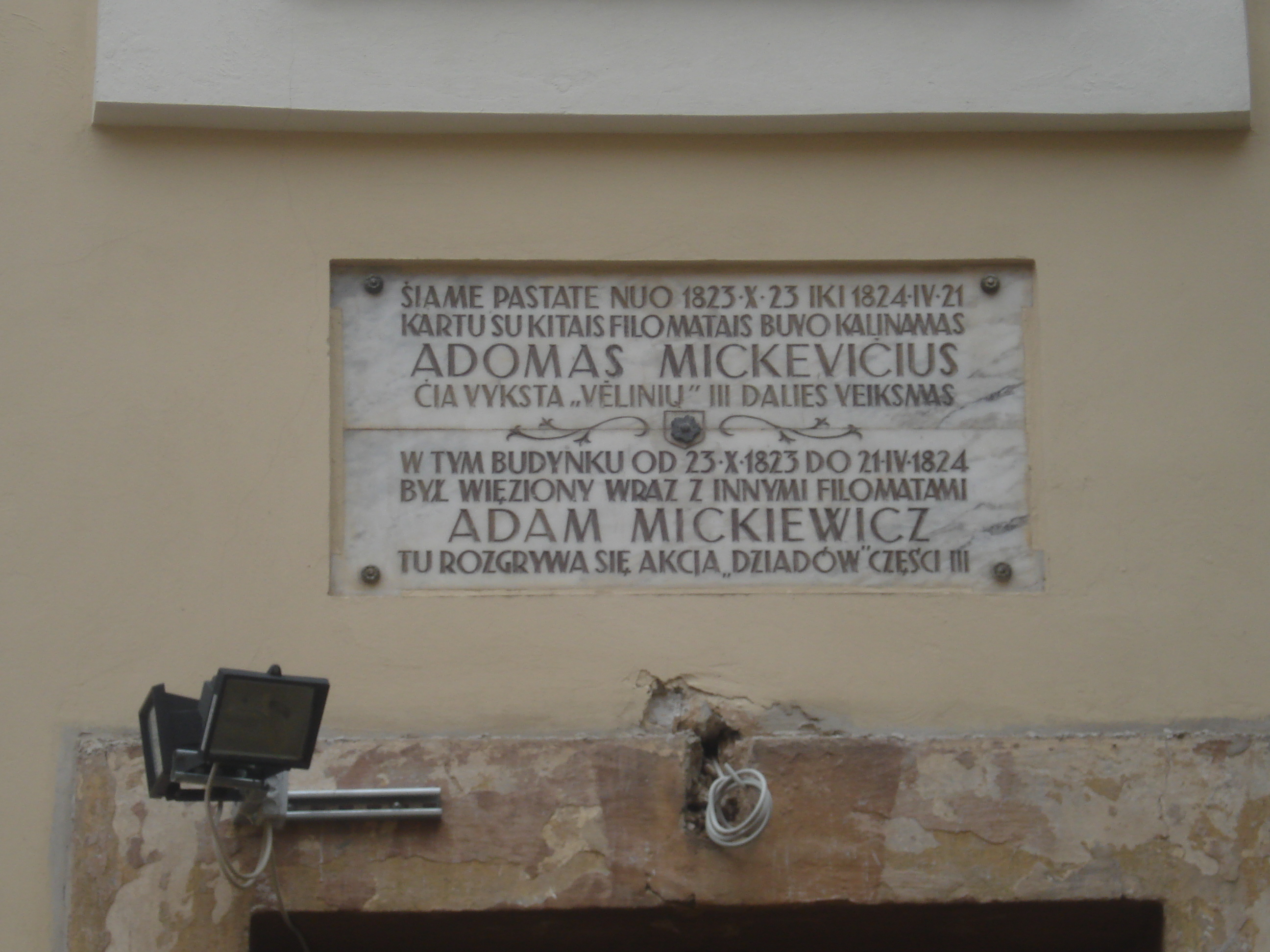 Adam Mickiewicz memorial plaque in Vilnius (1823-1824, former Greek Catholic Basilian monastery)